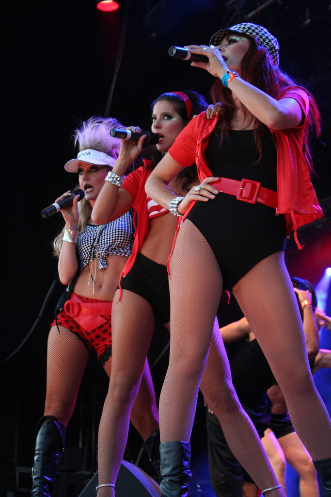 The group Pay TV performing live during Stockholm Pride 2006